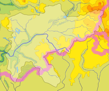 Merky basin / catchment area of Merksy in relation to the Neman